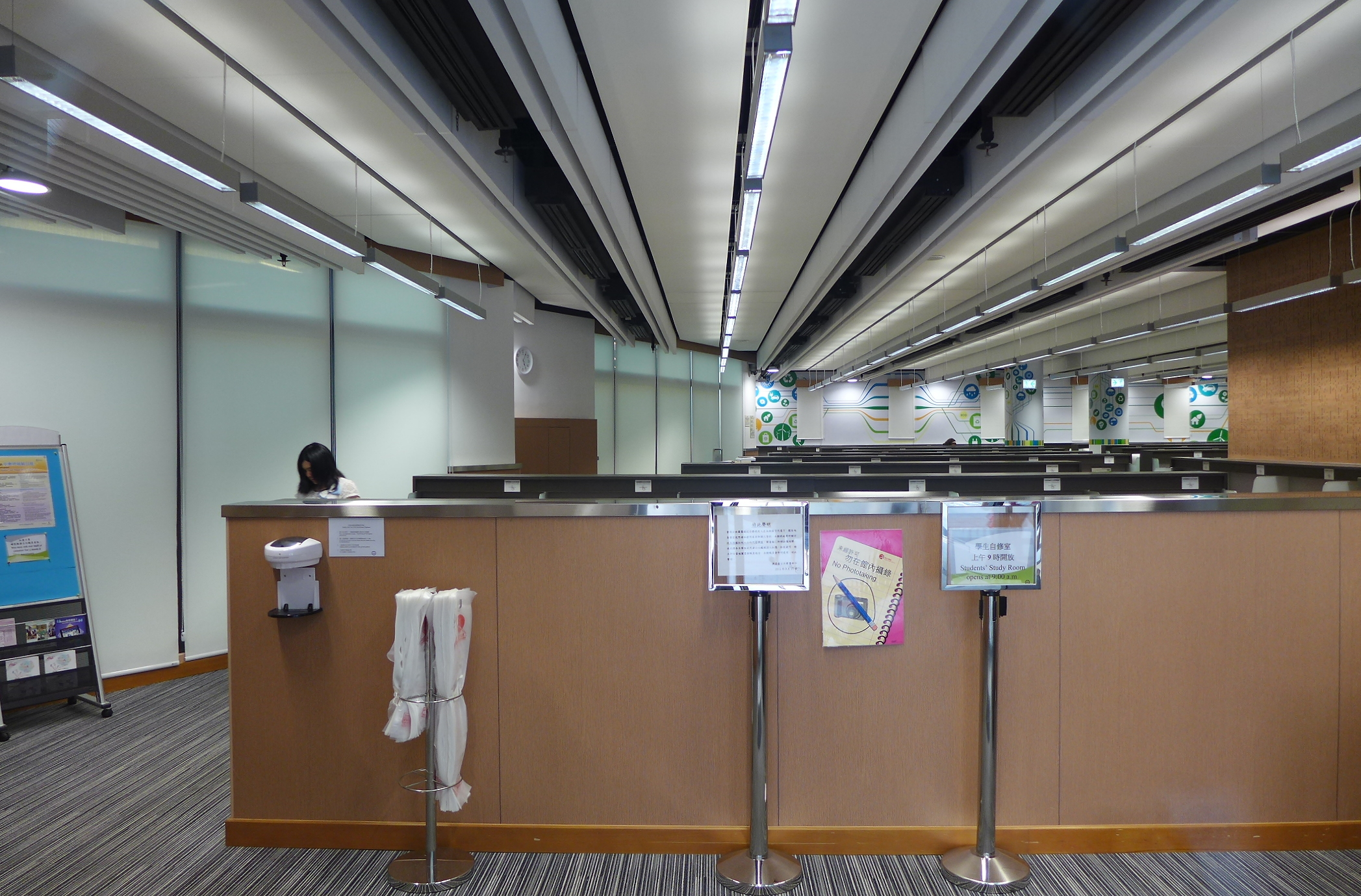 Tiu Keng Leng Public Library Study Room